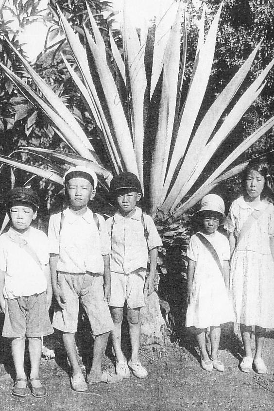 Japanese pupils in Truk Island